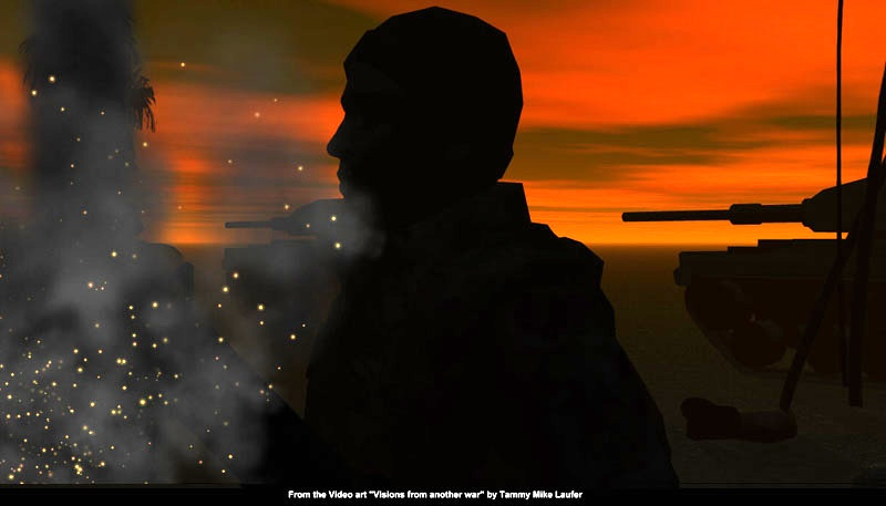 Battle, digital drawing 2009, by Tammy Mike Laufer